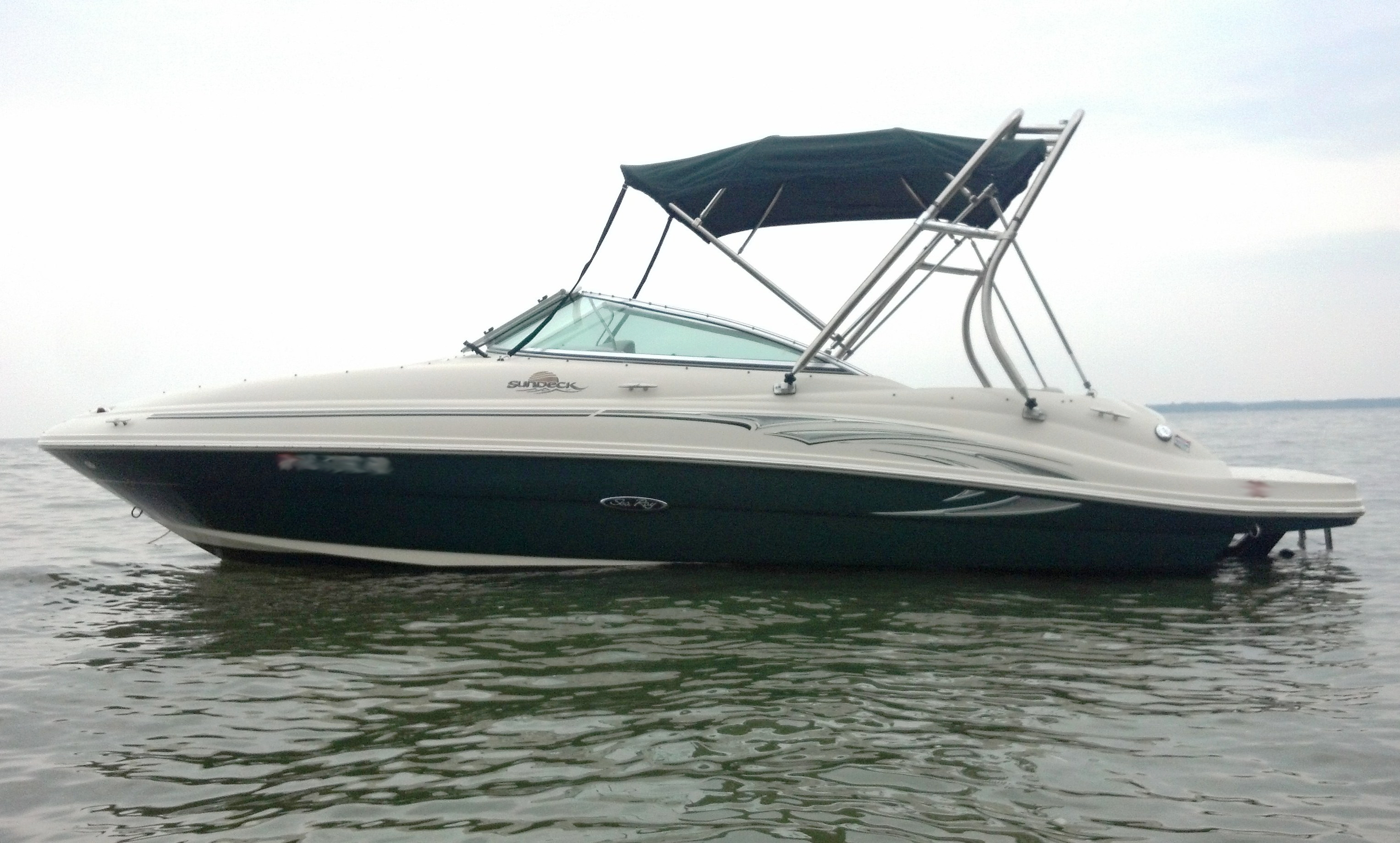 Image of a 2005 Sea Ray 220 Sundeck with anti-fouling paint and wakeboard tower.